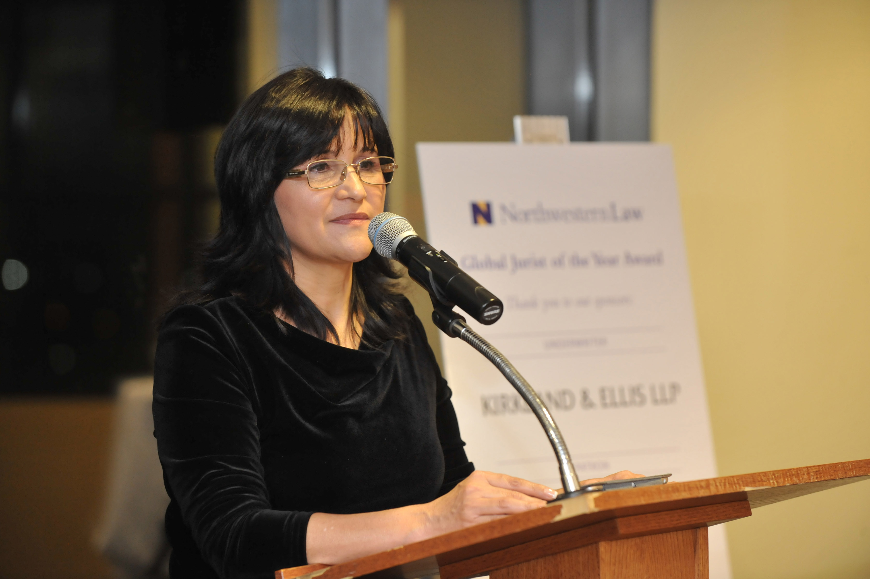 CHICAGO, IL- JANUARY 26: The Center for International Human Rights at the Northwestern University Pritzker School of Law hosted a reception and dinner to honor the 2015 Global Jurist of the Year award winner on Tuesday, January 26, 2016 at the clinic in Chicago, Illinois. This year's honoree is Judge Gloria Patricia Porras Escobar, President of the Guatemalan Constitutional Court. Photo credit: Randy Belice for Northwestern Law